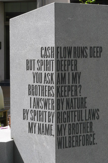 The Gilt of Cain - Text Part of the poem by Lemn Sissay.